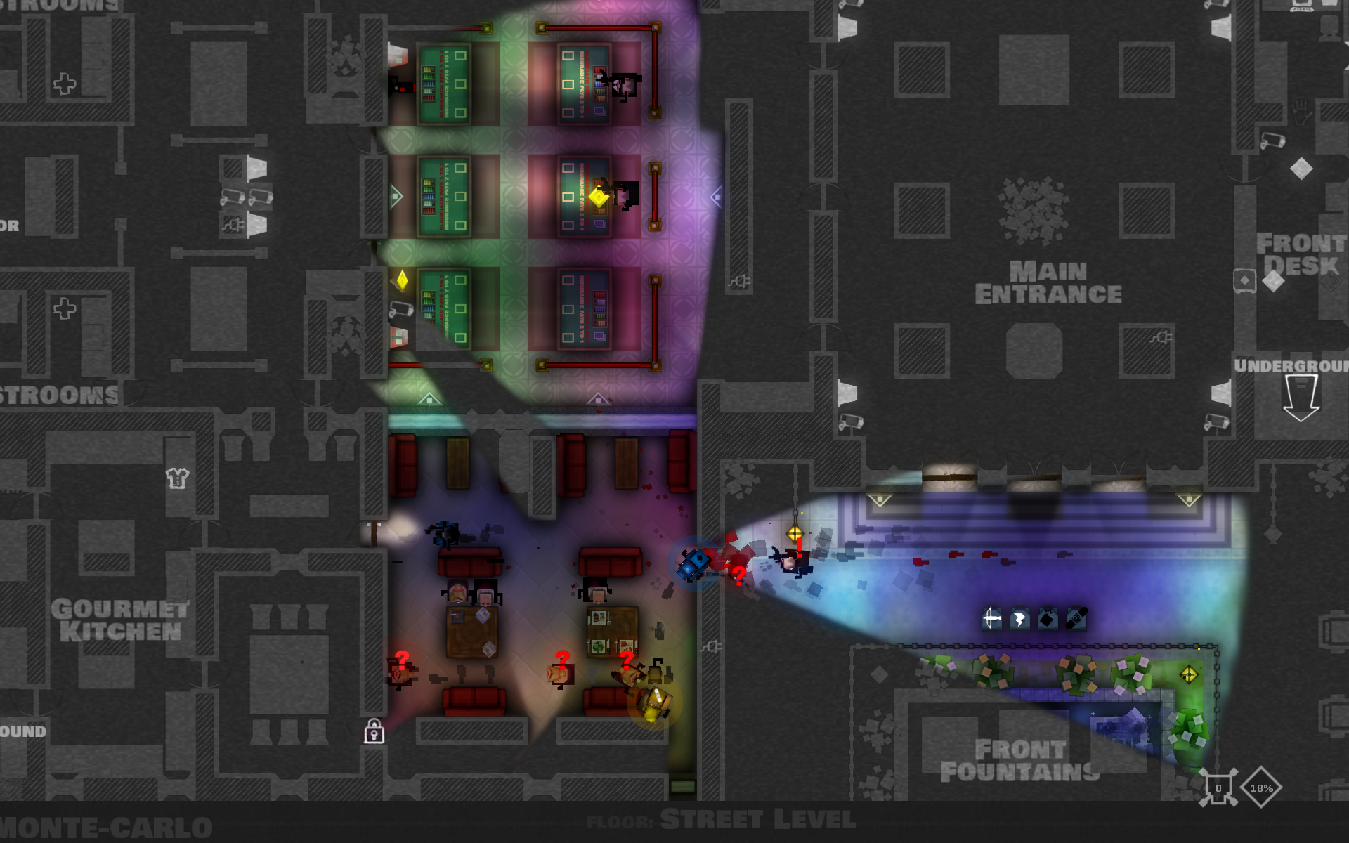 Screenshot of Monaco:What's Yours Is Mine.